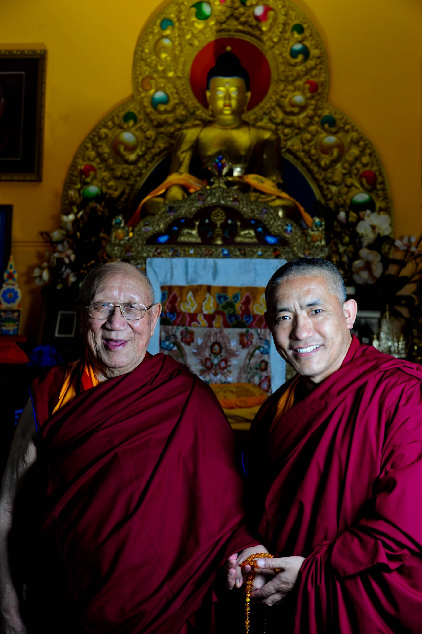 Kyabje Khensur Kangurwa Lobsang Thubten Rinpoche and Geshe Jampa Gyaltsen